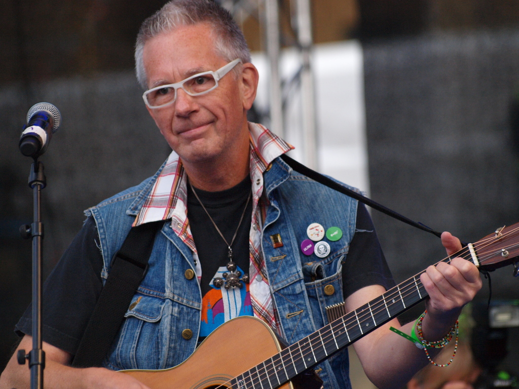 Nationalteatern on Götaplatsen performing after Red-Greens election speaches.